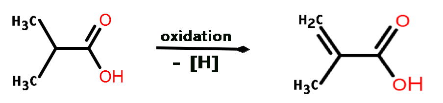 Methacrylic acid synthesis from isobutyric acid dehydrogenation